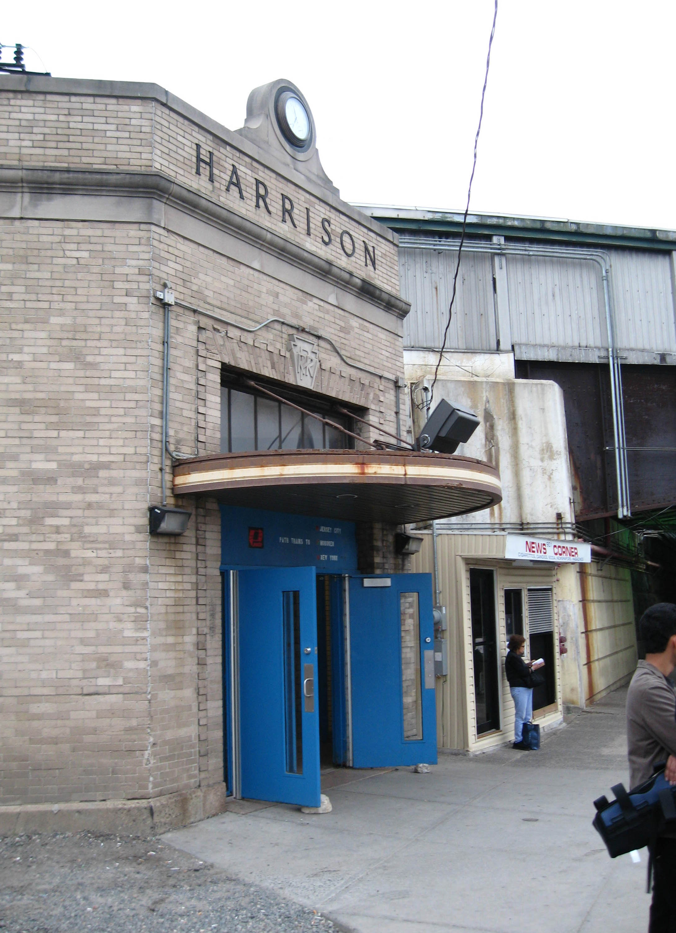 Looking northwest at PATH station in Harrison on a cloudy evening in springtime.